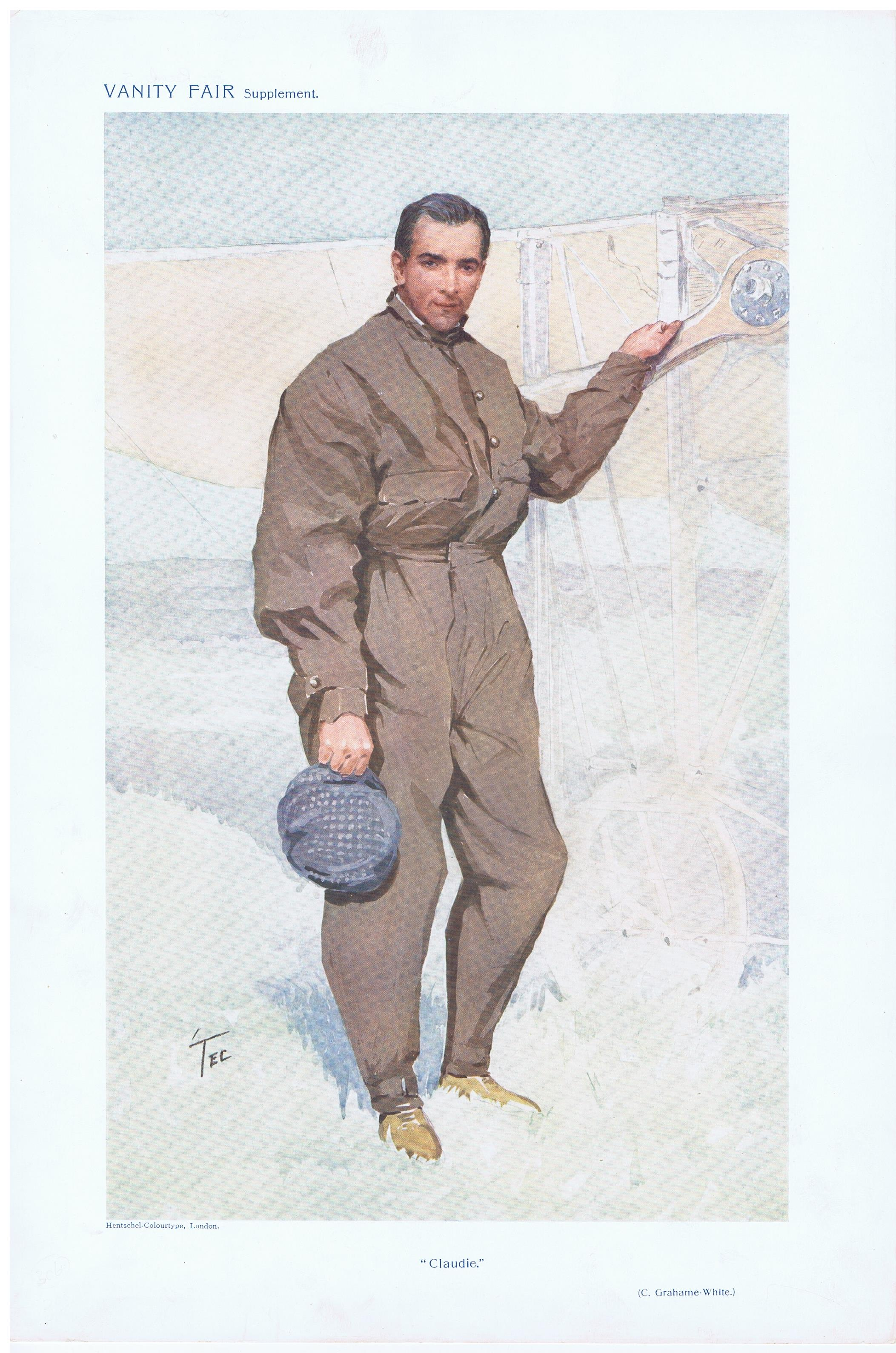 Men of the Day No.1278: Caricature of C Grahame-White. Caption reads: "Claudie"